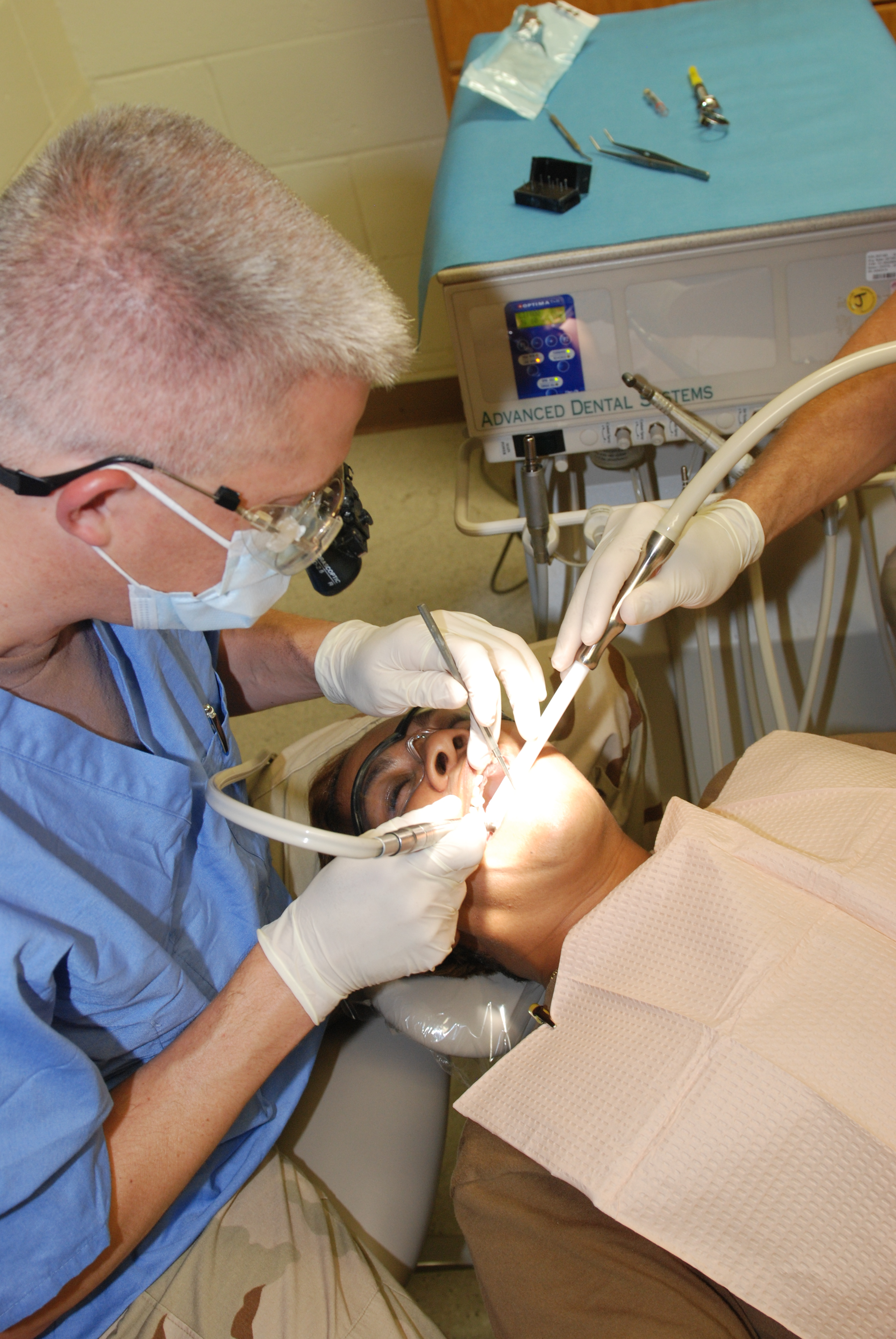 GUANTANAMO BAY, Cuba – Navy Cmdr. George Sellock, a dentist deployed with Joint Task Force Guantanamo’s Joint Troop Clinic, performs dental work on a Trooper’s tooth, May 13, 2009. The JTC is a first line aid station for JTF Guantanamo Troopers. (JTF Guantanamo photo by Army Spc. Cody Black)